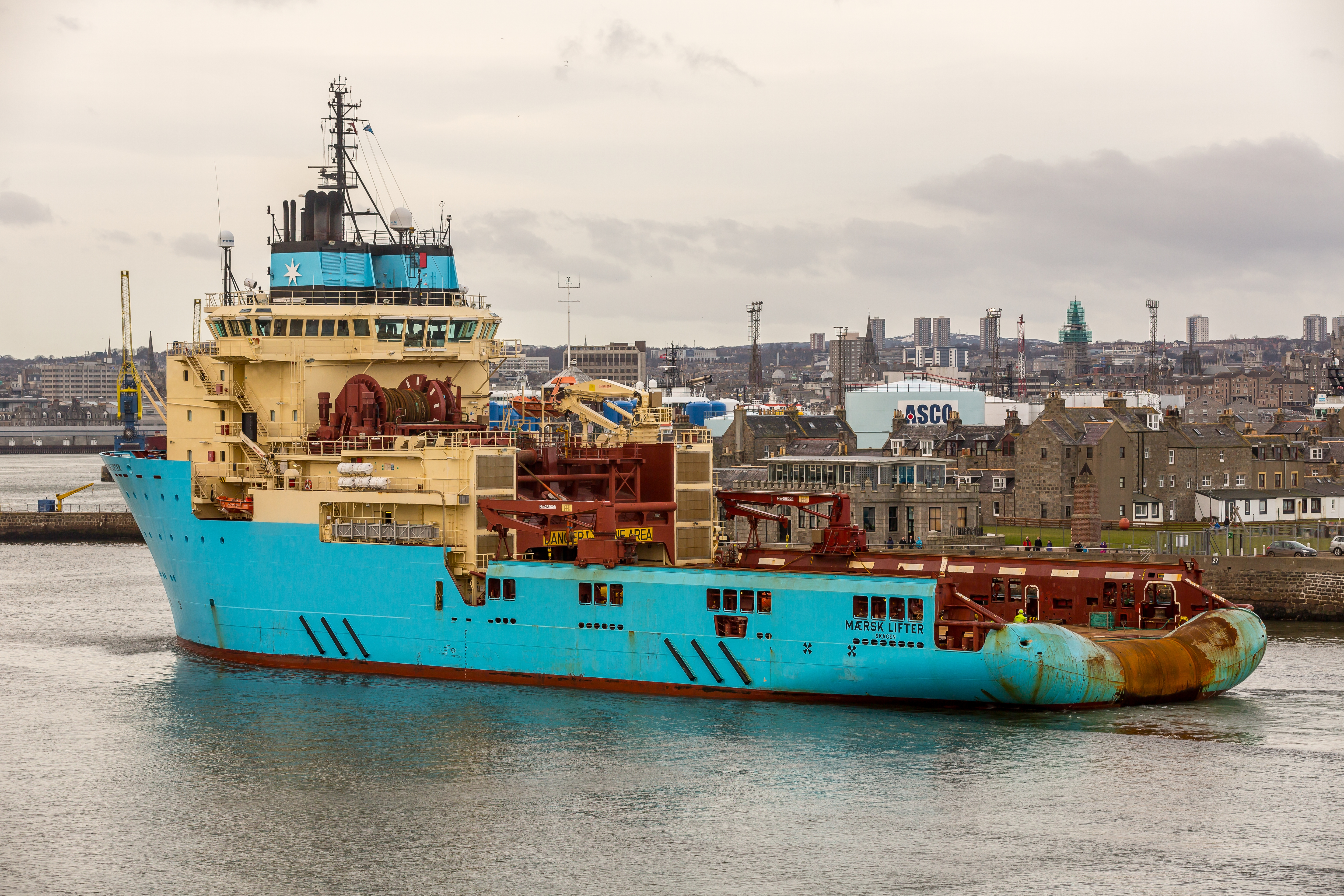 Anchorhandling ship Maersk Lifter, Aberdeen Harbour